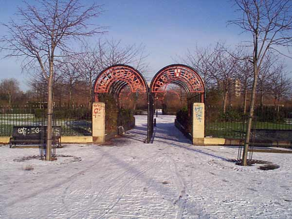 The entrance to Walker Park in Walker.